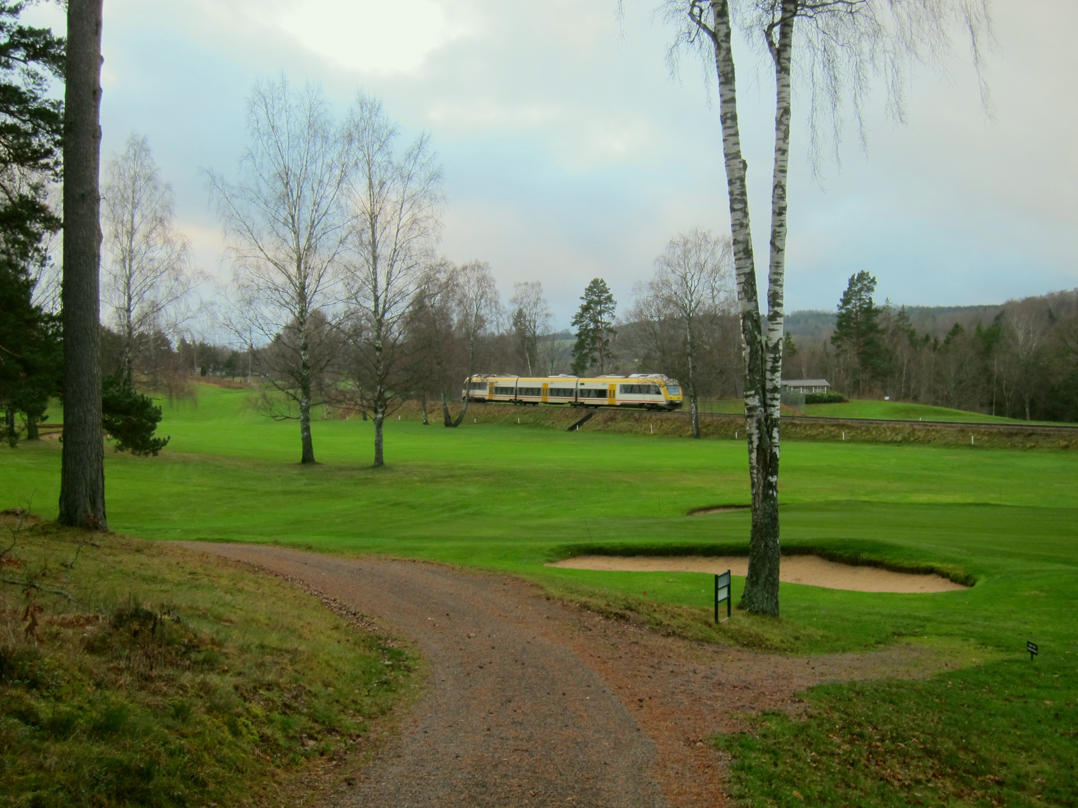 sv.Jönköpings GK